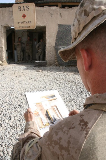 Sgt. Kristopher J. Battles, 41, is a USMC combat artists working for the National Museum of the Marine Corps. Here he is seen sketching while on active duty in Iraq.